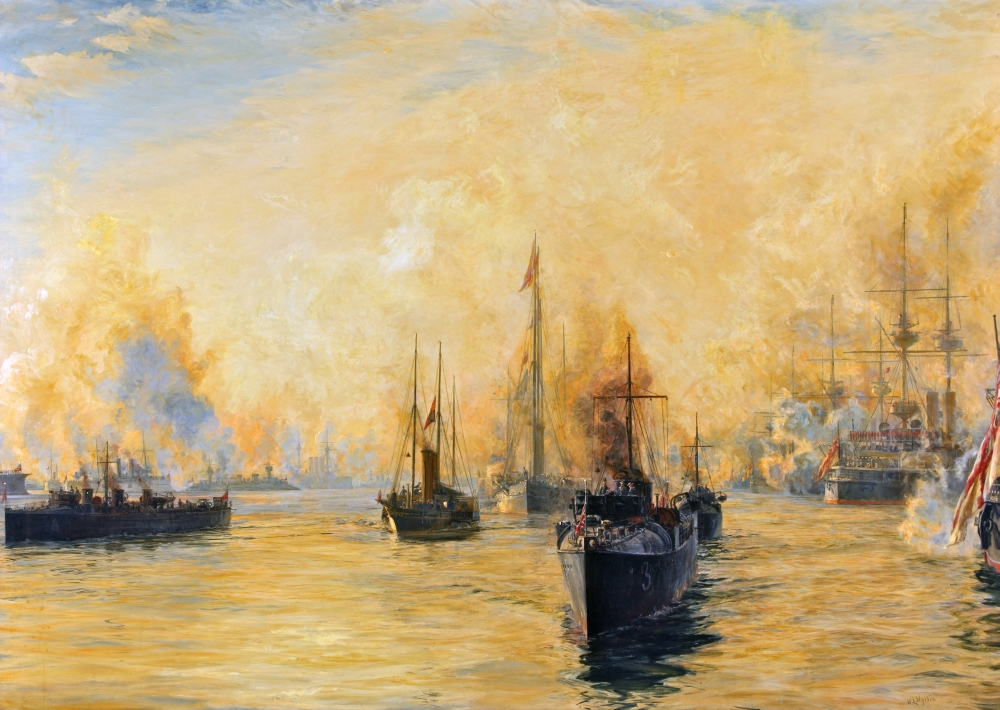 Wyllie depicts a scene during the funeral of Queen Victoria. The royal yacht, HMY Alberta, carrying the Queen's body, arrives in Gosport in the late afternoon of 1 February 1901, with the setting sun behind her. The royal standard flies at half-mast, and surrounding the small vessel are several escorting destroyers. In the background the anchored battleships fire salutes. Following behind the Alberta is the larger royal yacht HMY Victoria and Albert, flying the royal standard and carrying King Edward VII and other royal mourners.